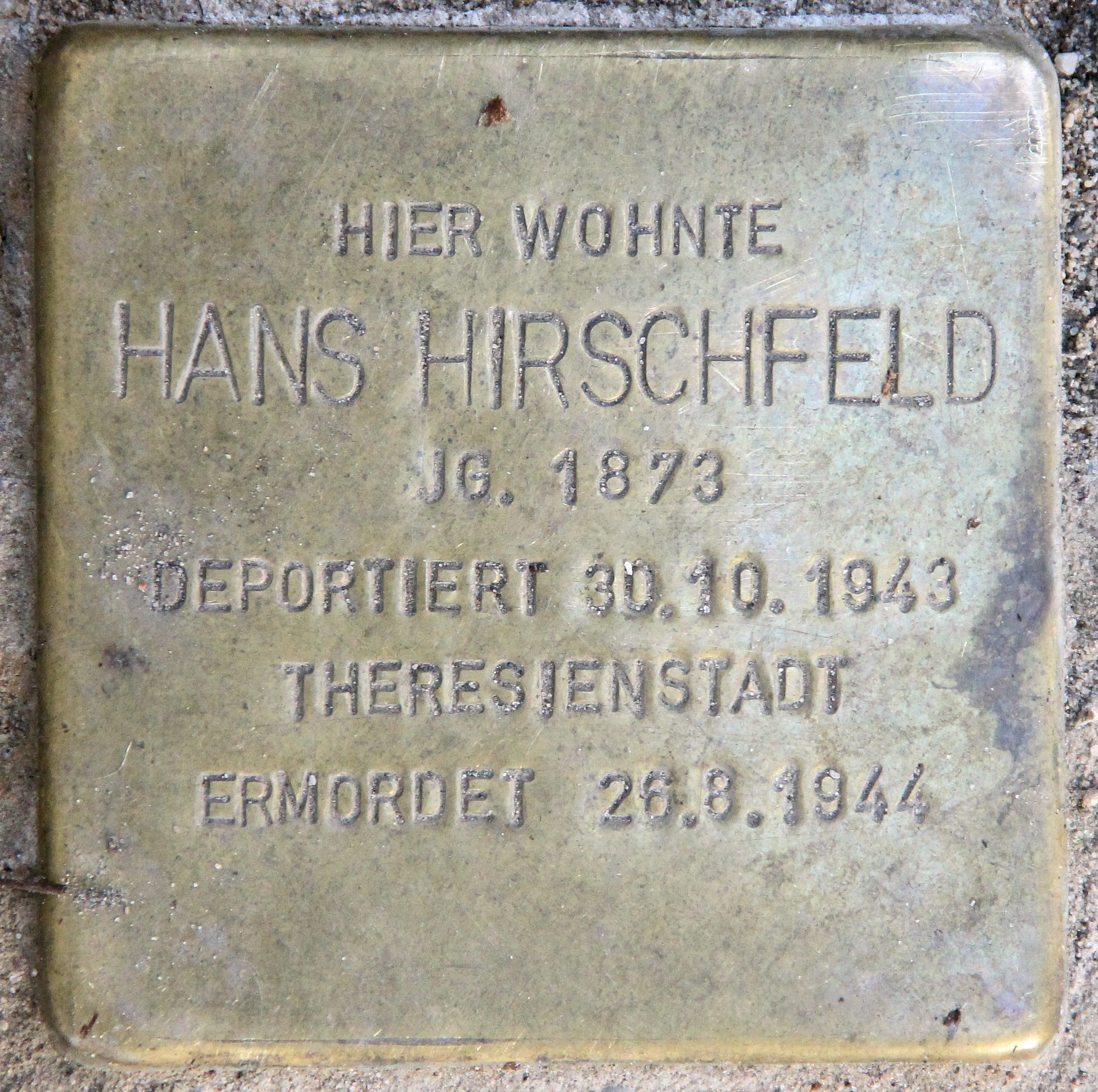 "Stolperstein" (stumbling block), Hans Hirschfeld, Droysenstraße 18, Berlin-Charlottenburg, Germany